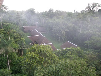 View of the Tambopata Research Center from a nearby nest tree.